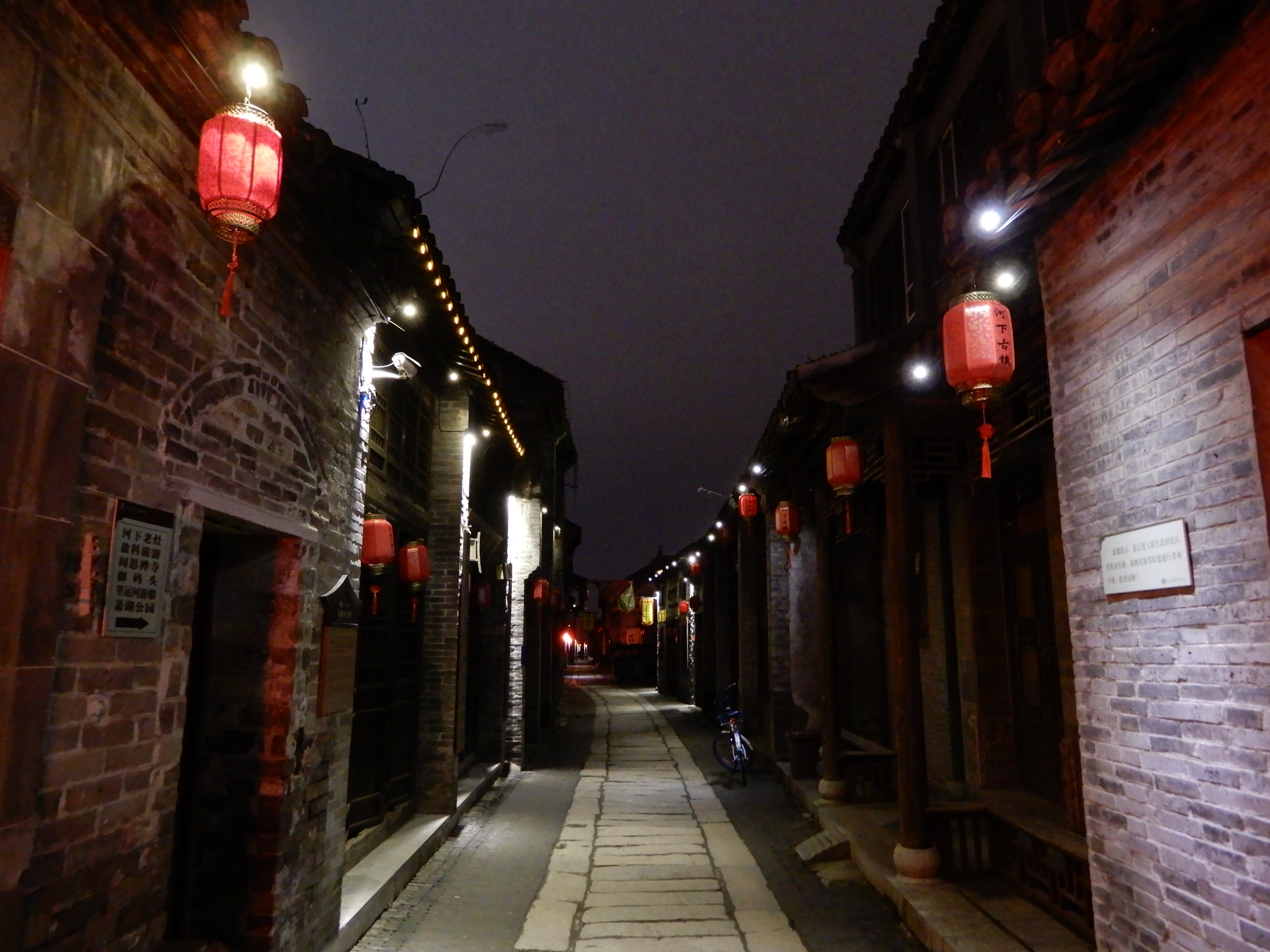 Night view of Hexia Ancient Town